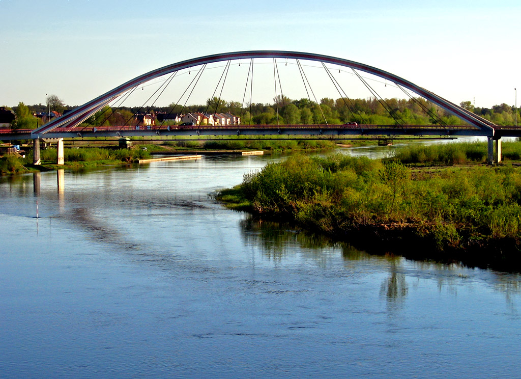 City of Ostroleka (Poland), the Madalinski Bridge.